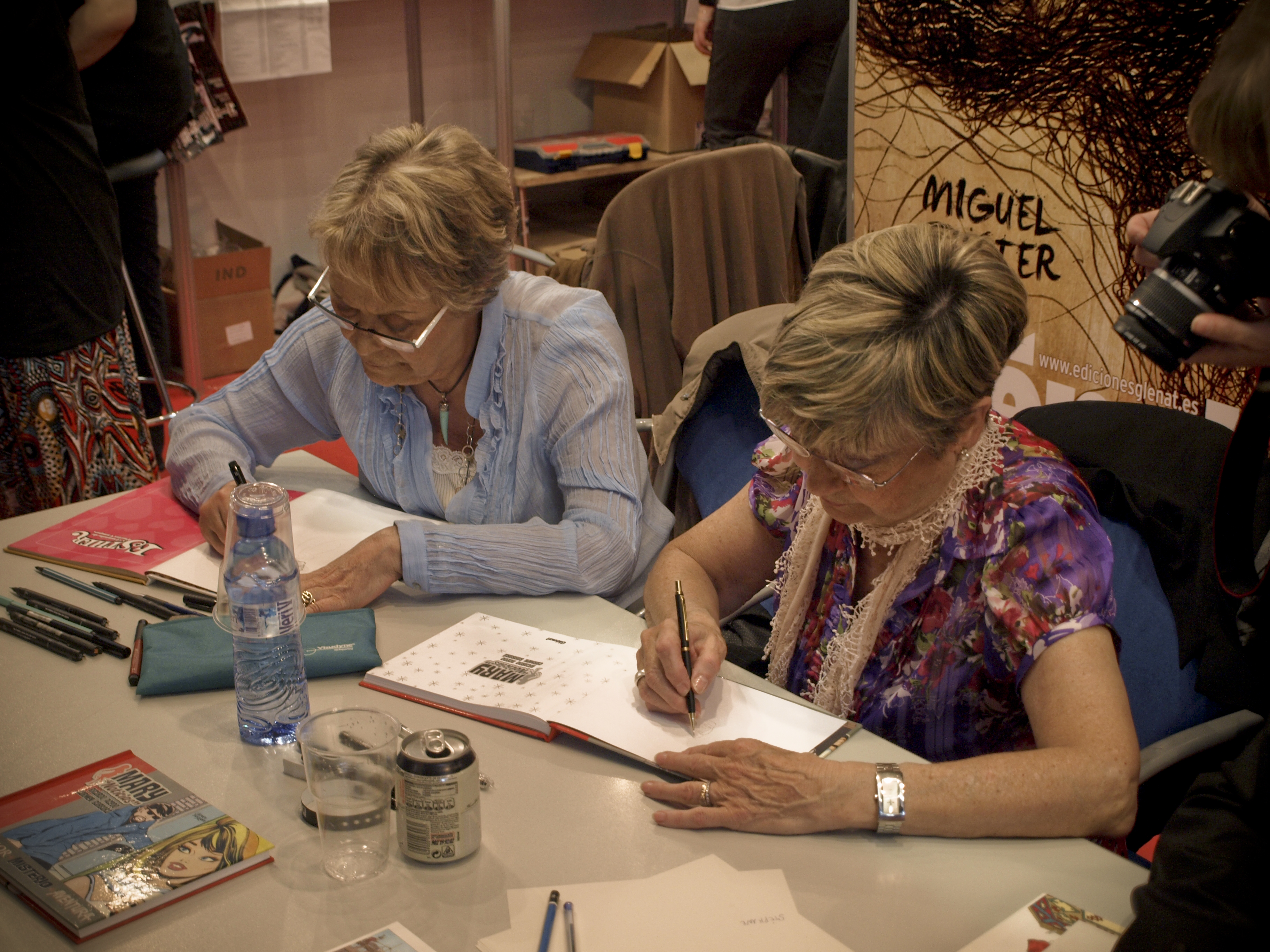 Comic artists Purita Campos and Carmen Barbará at the 28th Salon Del Comic in Barcelona